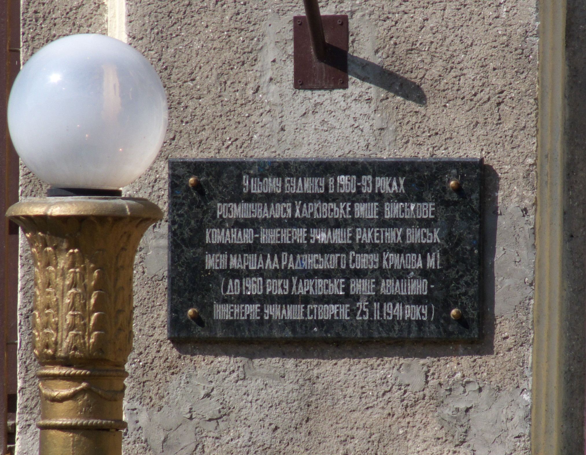 Kharkov air force university 03